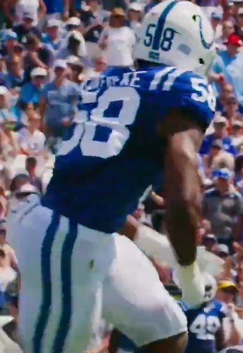 Bobby Okereke 2019. Image from video Titans Mic'd Up vs. Colts (Week 2) | Sounds of the Game, ~ 00:16